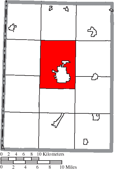 Map of the municipal and township boundaries of Preble County, Ohio, United States, as of the 2000 census, with the location of Washington Township highlighted. Township borders are shown only in unincorporated areas in order to differentiate incorporated and unincorporated areas more clearly.